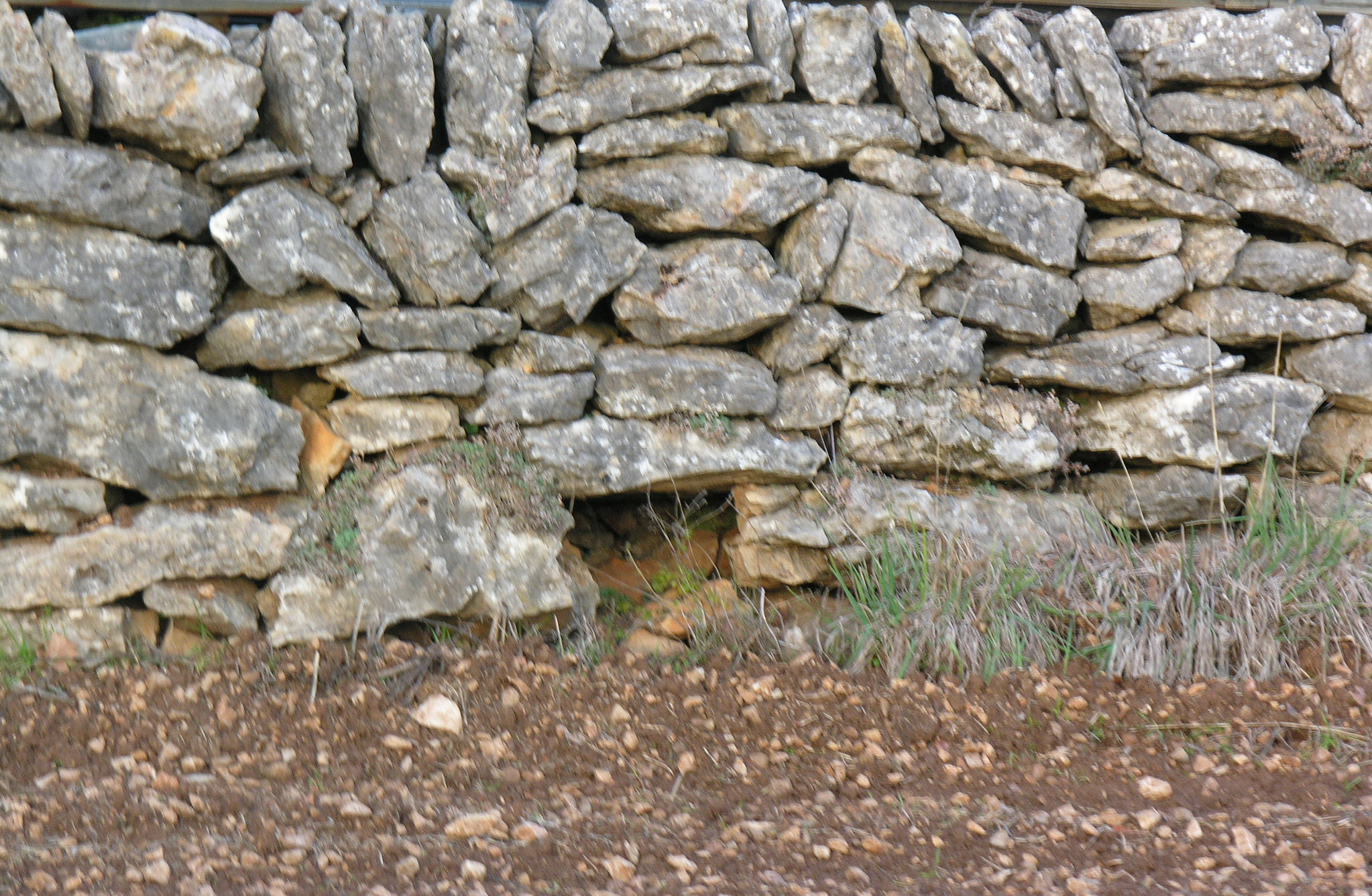 Mons, Var : Lèque or rabbit trap in a drystone wall (restanque)